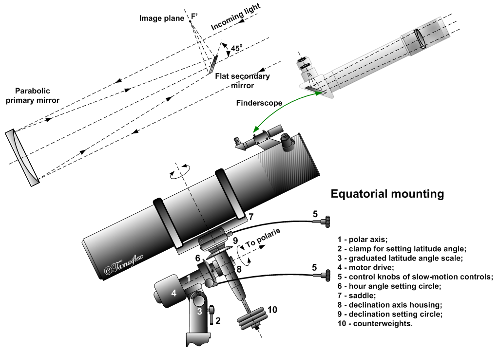 Newtonian telescope.